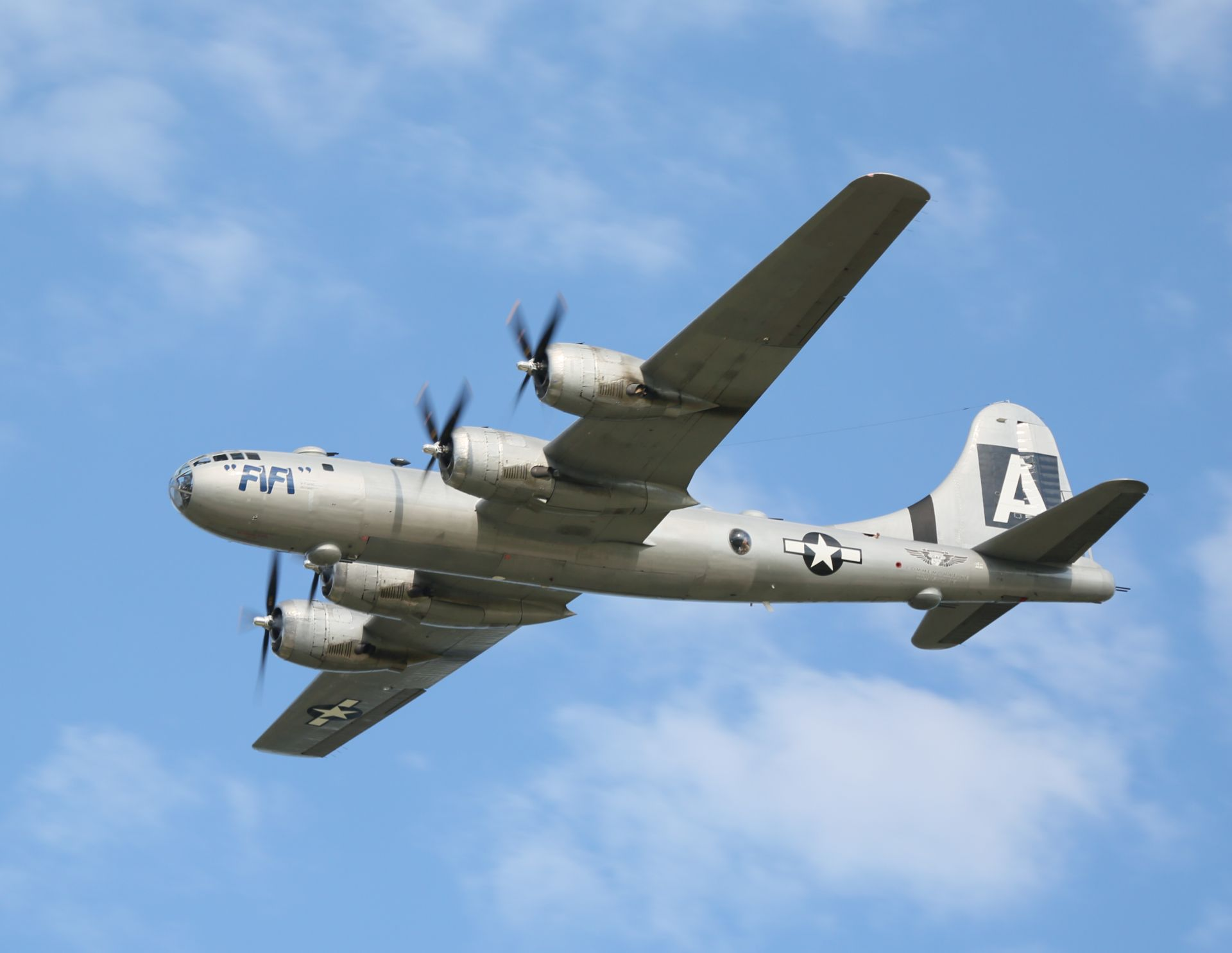 fifi